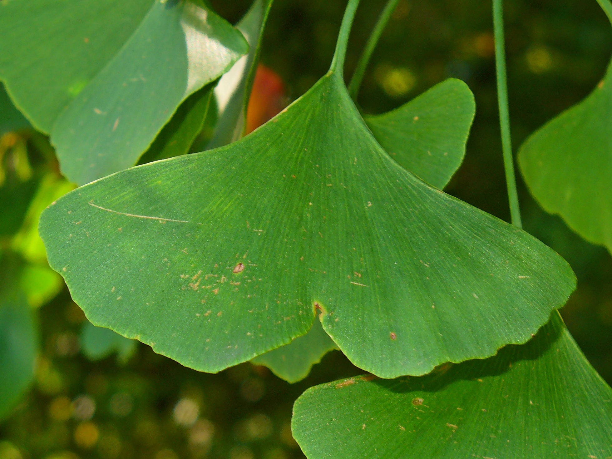 Ginkgo biloba, Ginkgoaceae, Ginkgo, leaf; Karlsruhe, Germany. The fresh leaves are used in homeopathy as remedy: Ginkgo biloba (Gink-b.)